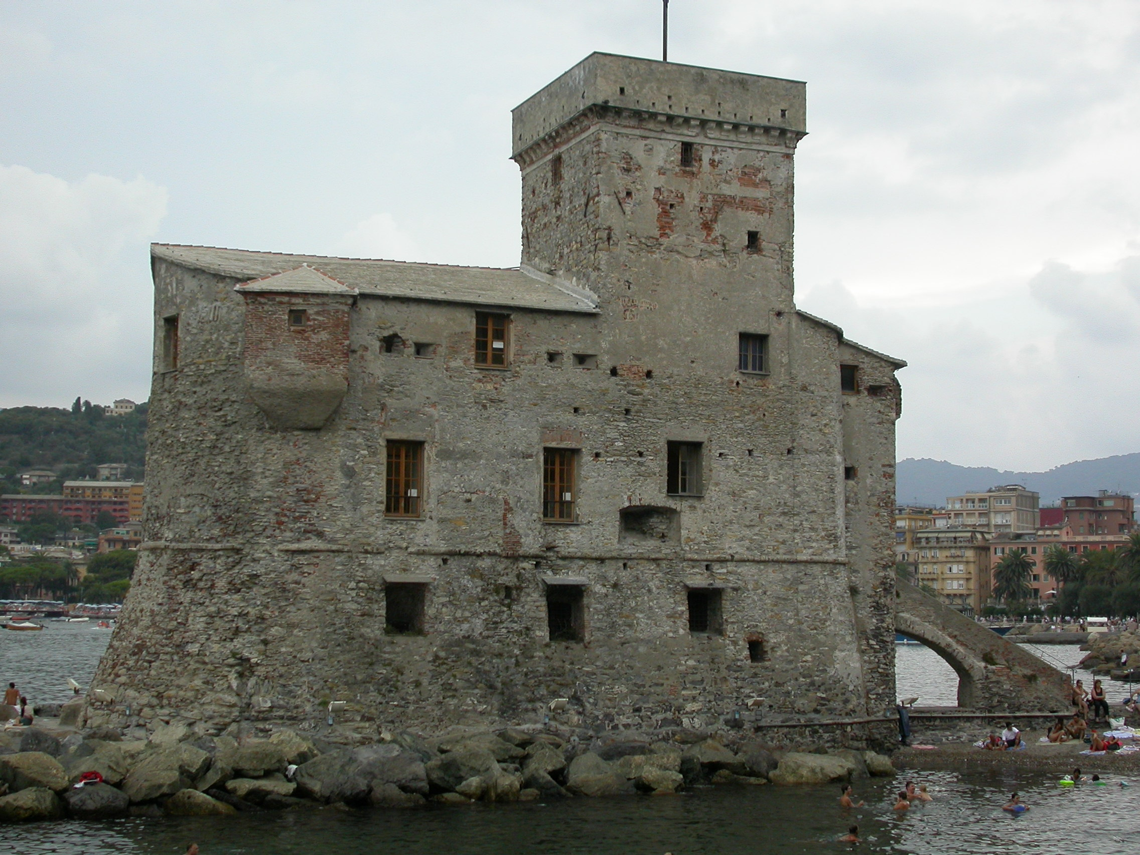 Description: The Rapallo's castel. Made by User:Maxo (August, 2003)